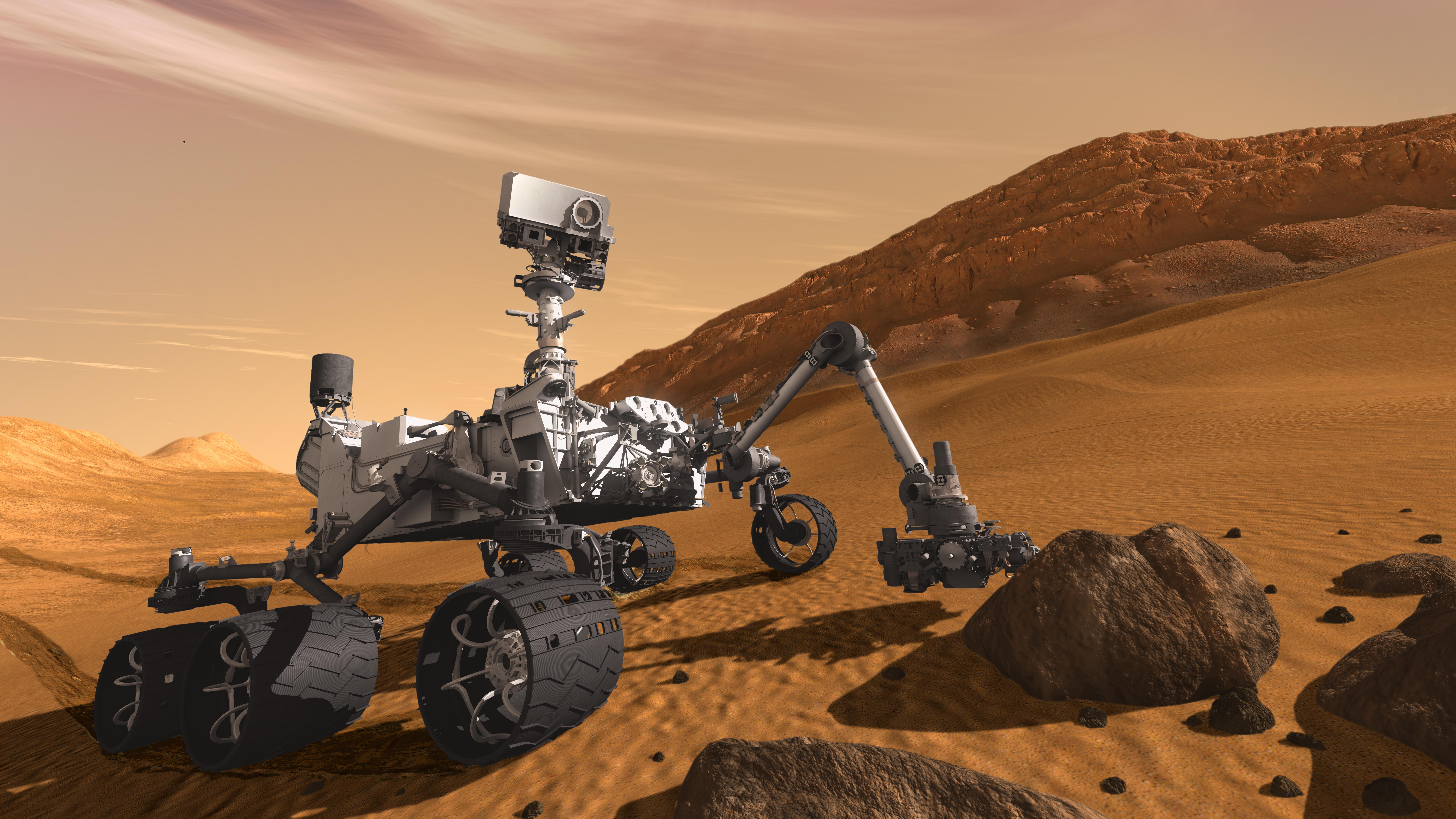 This artist concept features NASA's Mars Science Laboratory Curiosity rover, a mobile robot for investigating Mars' past or present ability to sustain microbial life. Curiosity is being tested in preparation for launch in the fall of 2011. In this picture, the rover examines a rock on Mars with a set of tools at the end of the rover's arm, which extends about 2 meters (7 feet). Two instruments on the arm can study rocks up close. Also, a drill can collect sample material from inside of rocks and a scoop can pick up samples of soil. The arm can sieve the samples and deliver fine powder to instruments inside the rover for thorough analysis. The mast, or rover's "head," rises to about 2.1 meters (6.9 feet) above ground level, about as tall as a basketball player. This mast supports two remote-sensing instruments: the Mast Camera, or "eyes," for stereo color viewing of surrounding terrain and material collected by the arm; and, the ChemCam instrument, which is a laser that vaporizes material from rocks up to about 9 meters (30 feet) away and determines what elements the rocks are made of.